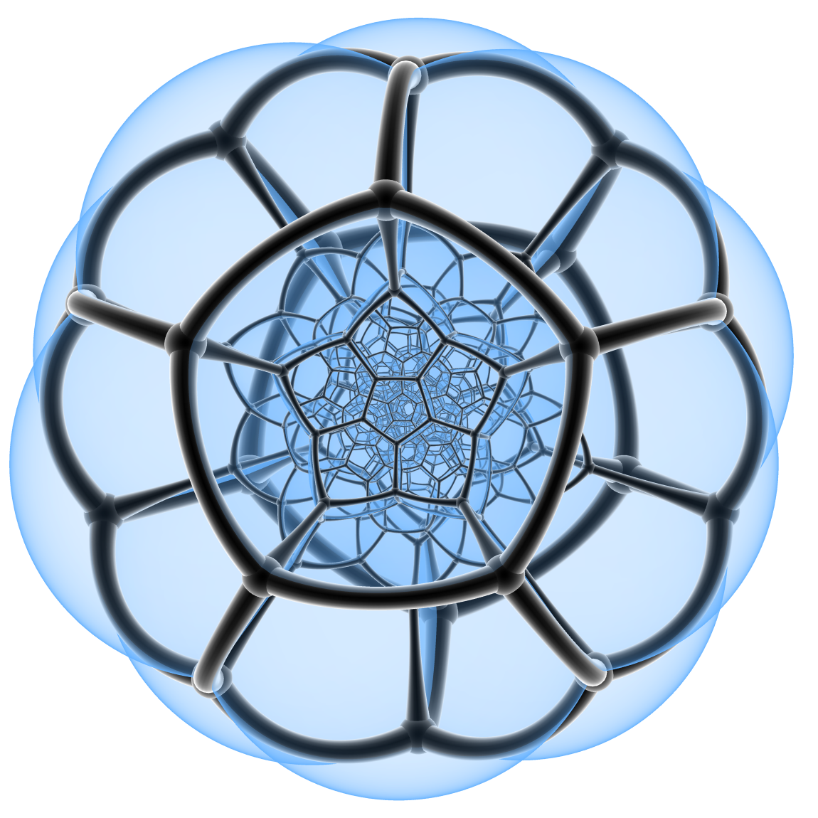 Stereographic projection of the 120-cell, a 4-dimensional polytope. Vertices and edges are in black; faces in blue. The features appear curved due to the angle-preserving stereographic projection from the hypersphere to Euclidean space, but are actually flat in the hypersphere. created with: Jenn3d